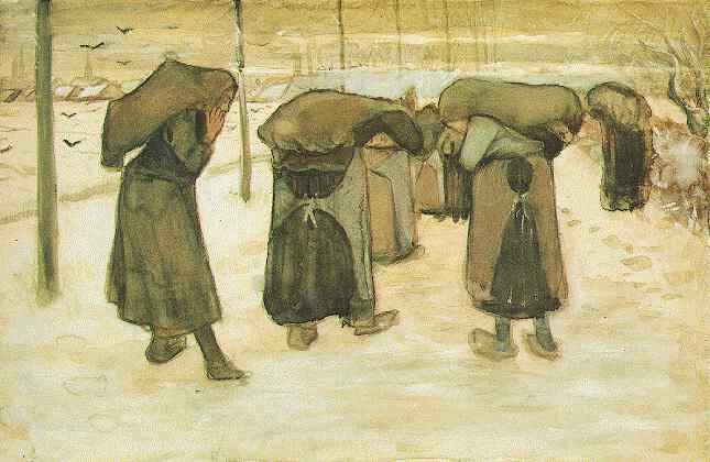 watercolour painting